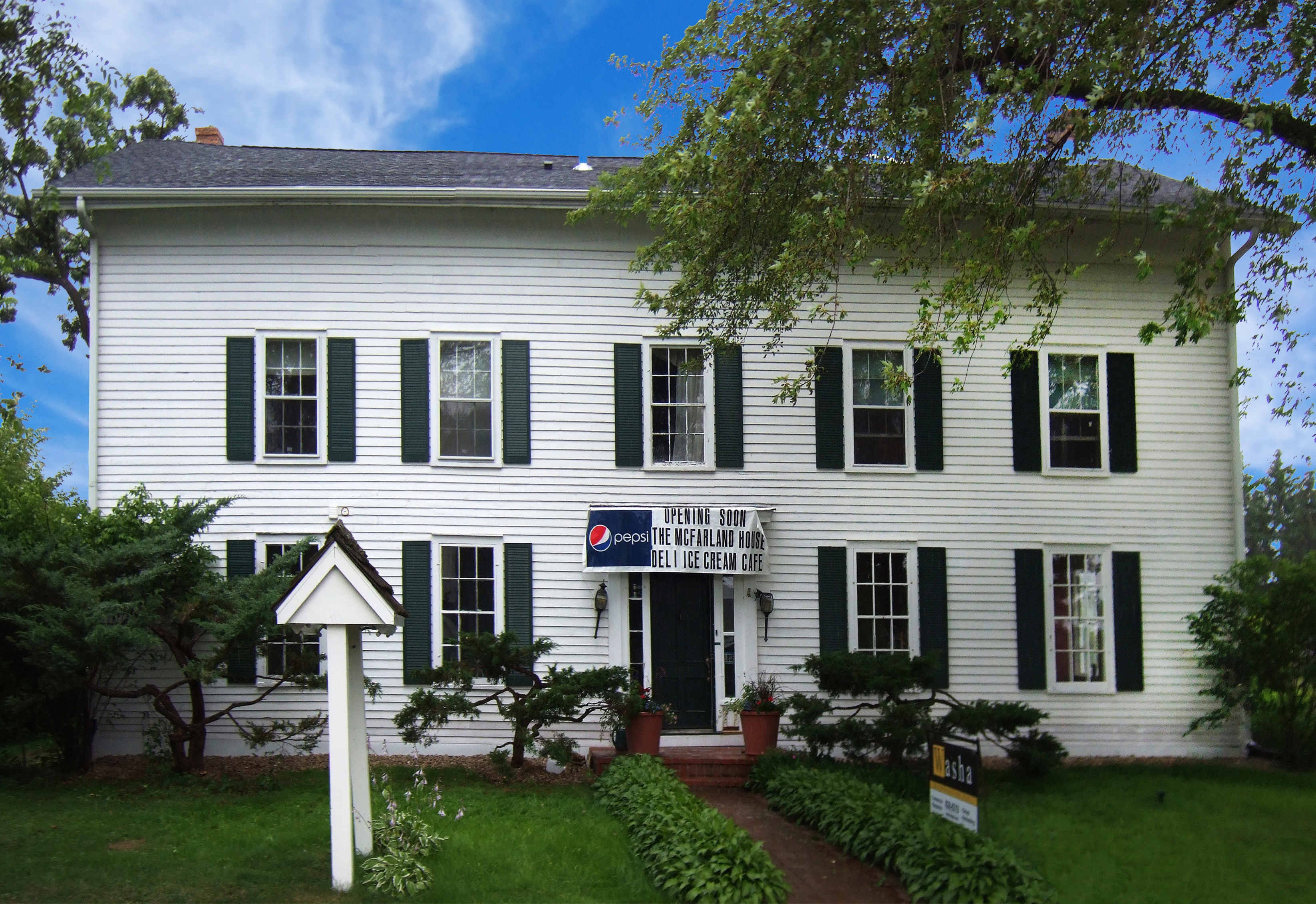 McFarland House (1857) at 5923 Exchange Street in McFarland, Wisconsin, was added to the National Register of Historic Places in 1988.